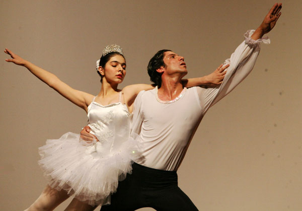 The Iraqi National Ballet performs a scene from Sleeping Beauty during a 10-day camp for aspiring Iraqi performers and artists at the National Unity Performing and Visual Arts Academy, July 13-24 2007.